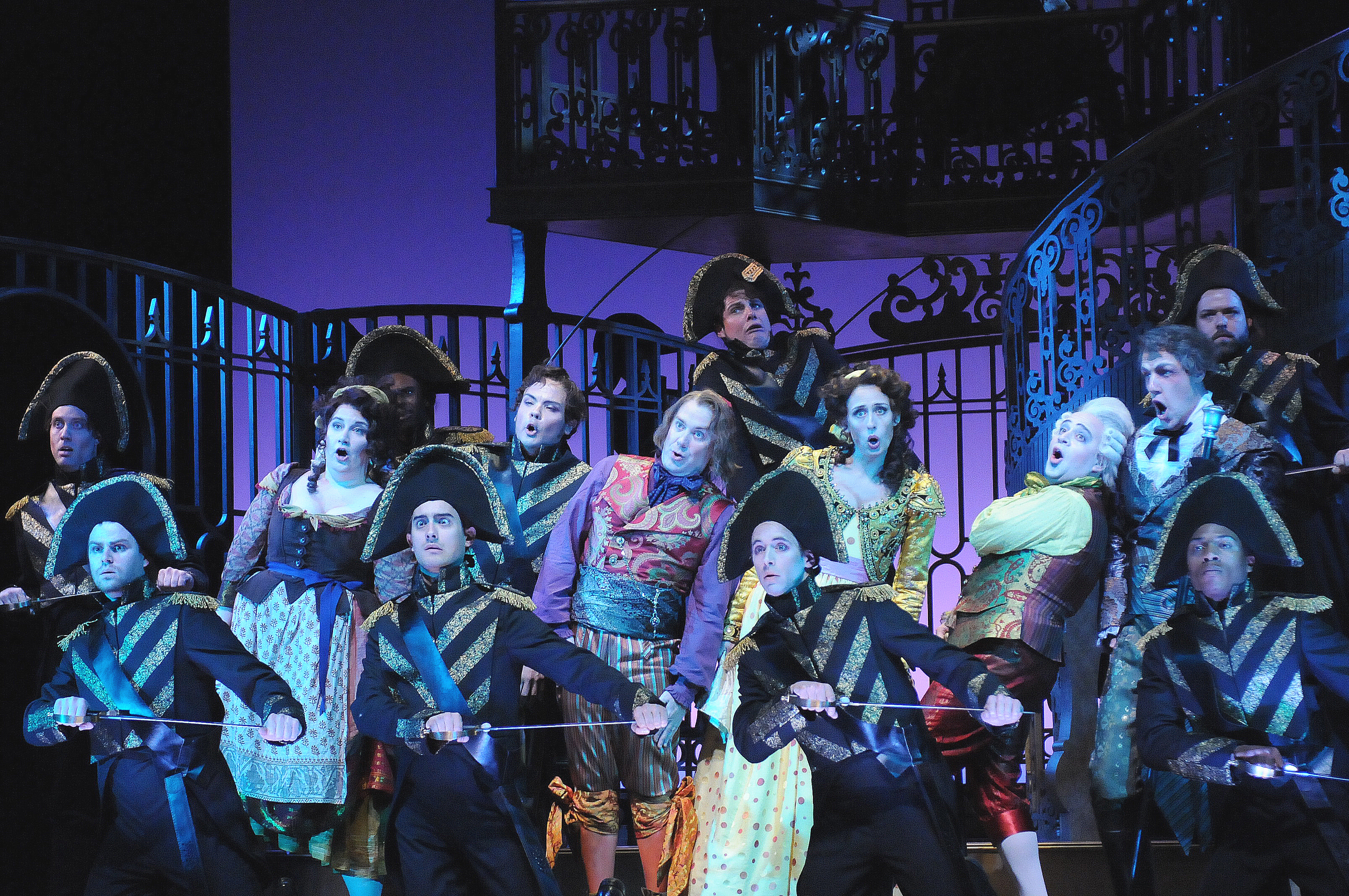 The Barber of Seville (c) Mark Kiryluk for Central City Opera